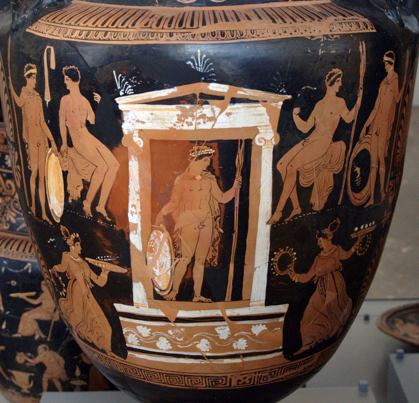 Naiskos. Side B of the “Priamides krater”, Apulian red-figure volute-krater, ca. 340 BC.